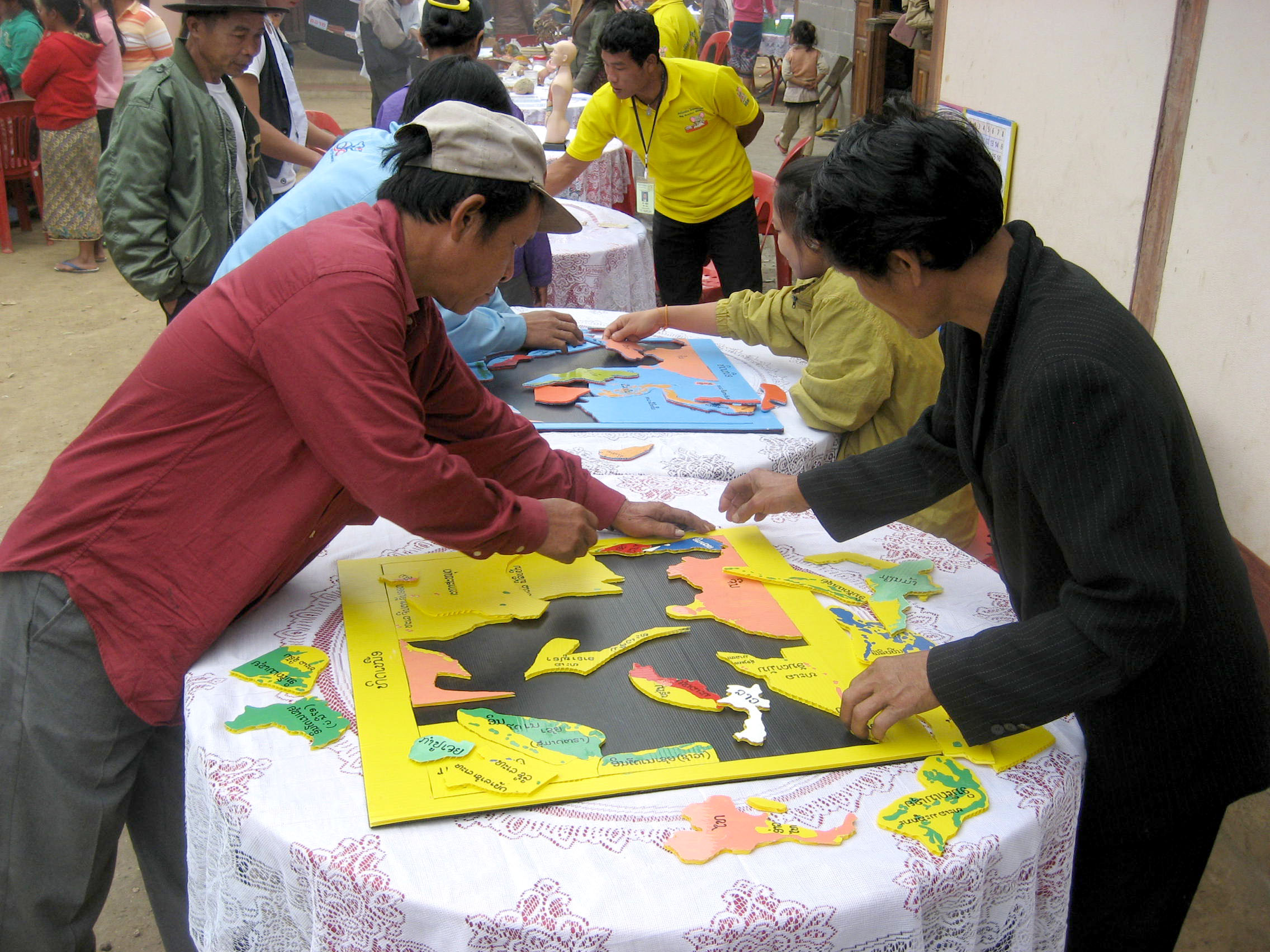 Lao villagers assemble jigsaw maps of Southeast Asia. These maps were made by Big Brother Mouse, a literacy project in Laos, which has published books about the region, and felt that both students and adults would get more from the books if they had a better grasp of where each country was located. Here, two groups raced to see who could complete the map first. It was the first time any of them had seen a jigsaw puzzle of any sort.